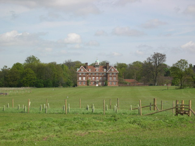 Tyttenhanger House. This grade 1 listed building, now converted to offices, sits in Tyttenhanger Park, which occupied most of the square